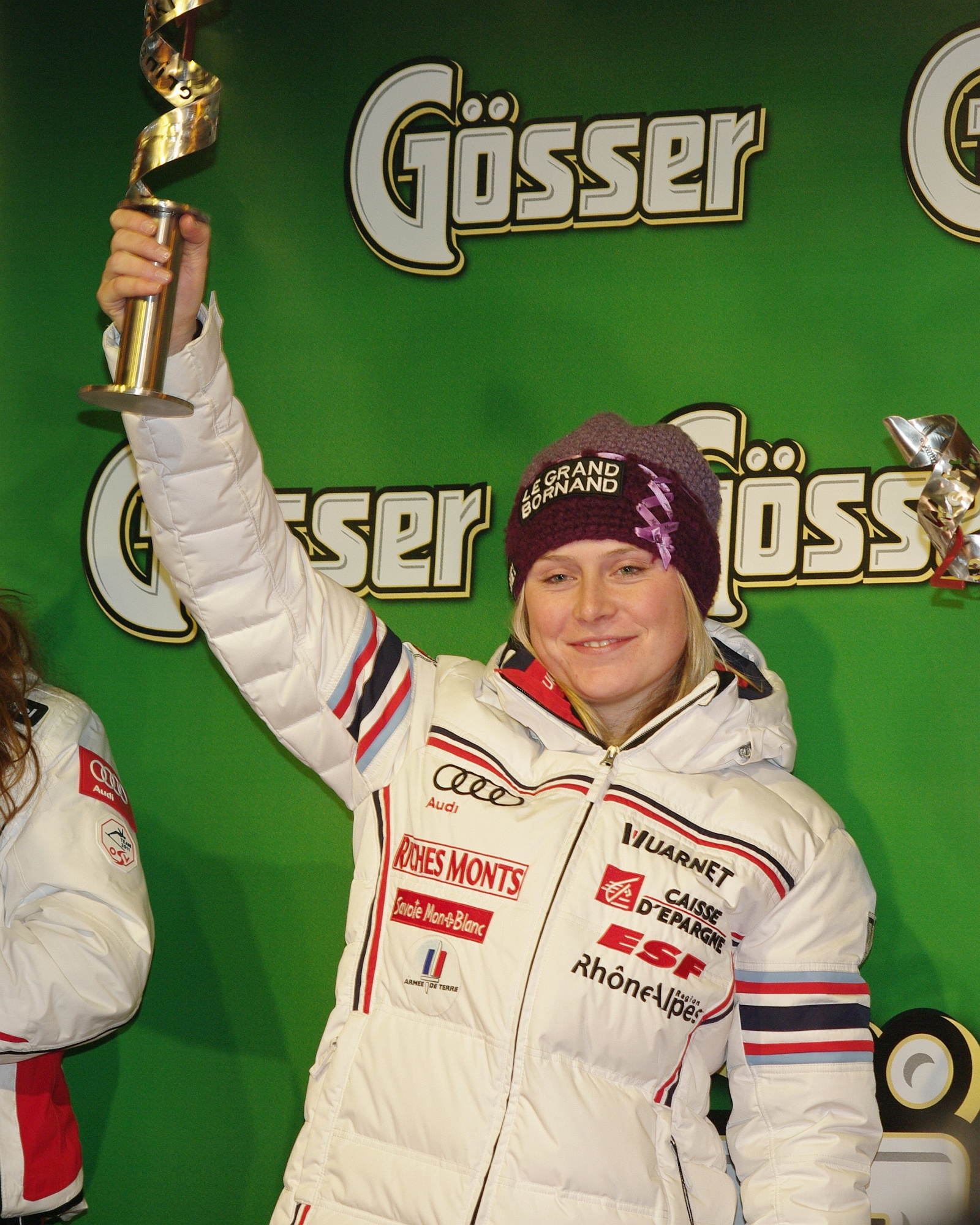 French alpine skier Tessa Worley at the prize giving ceremony for the Giant Slalom in Semmering (Austria) on 28 December 2010.